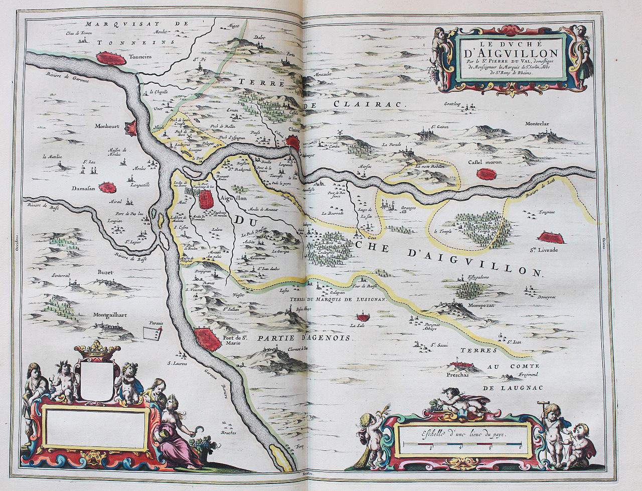 Le Duche D'Aiguillon. Geographia Blaviana. - Amsterdam : Juan Blaeu, 1659.